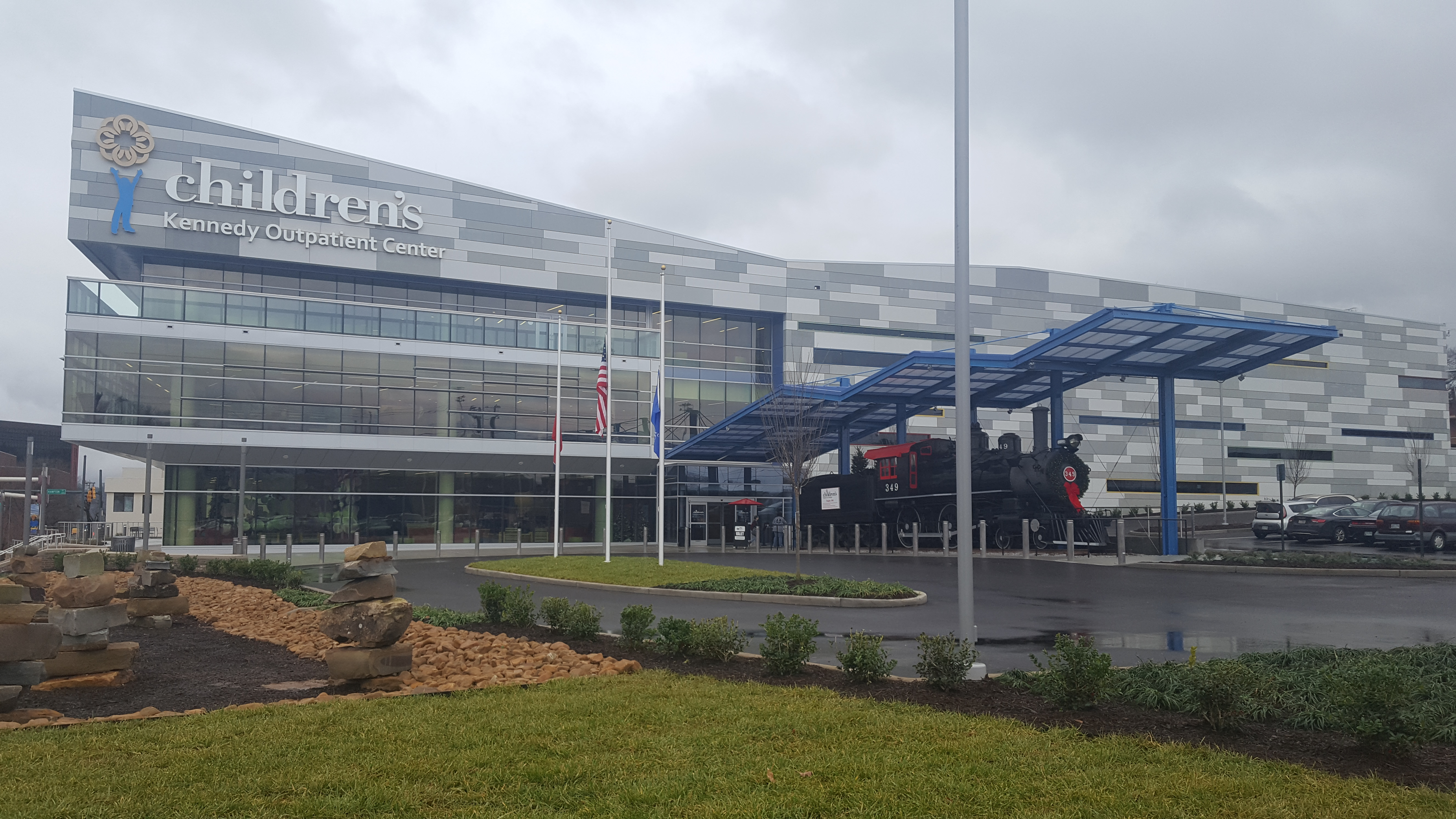 I personally took this photo of the new (dec2018) facility at Erlanger at chattanooga Tn. USA